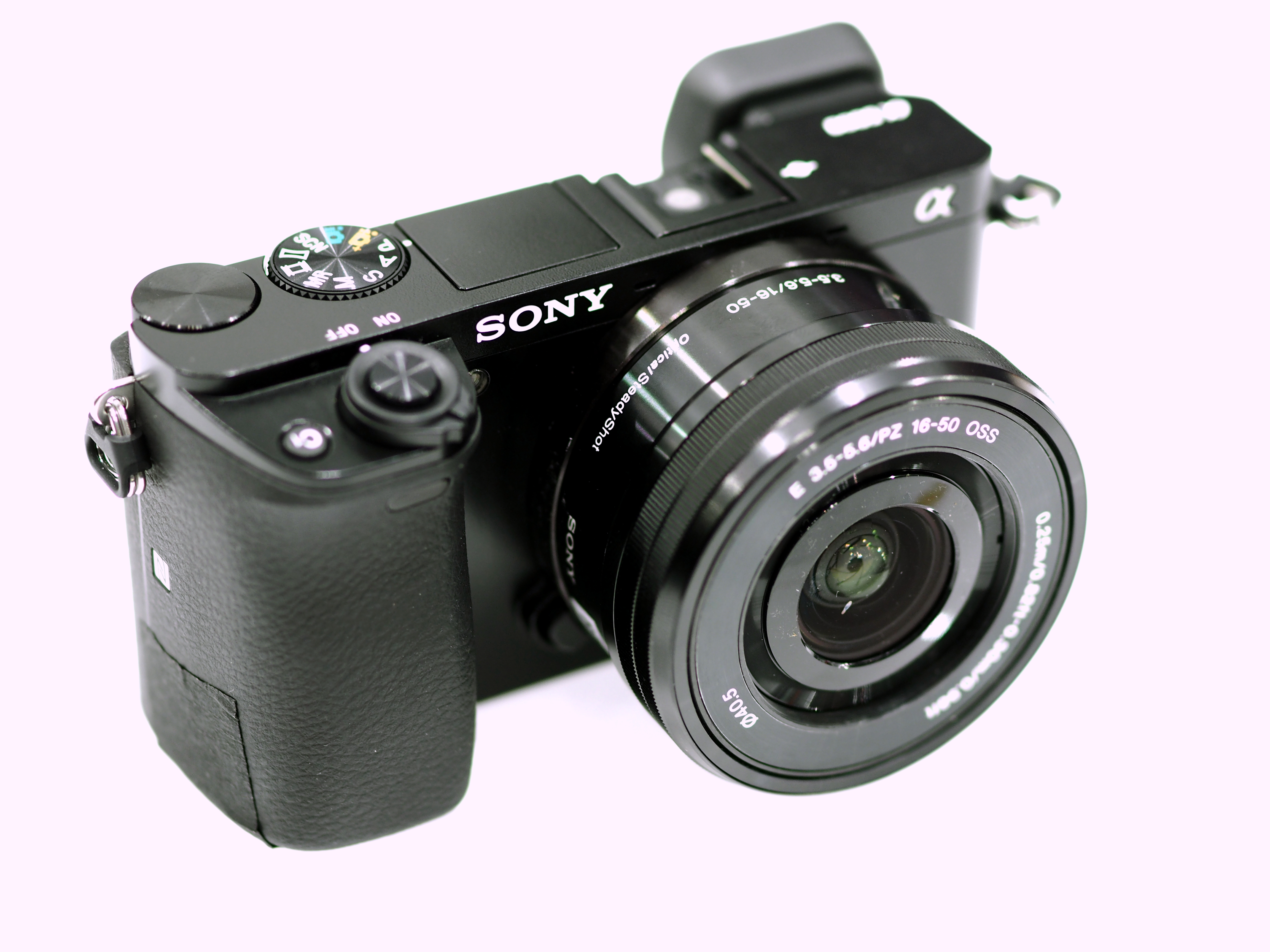 Sony Alpha ILCE-6000 black.